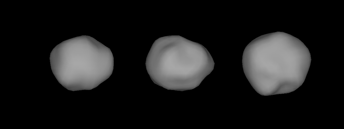 A three-dimensional model of 93 Minerva that was computed using light curve inversion techniques.